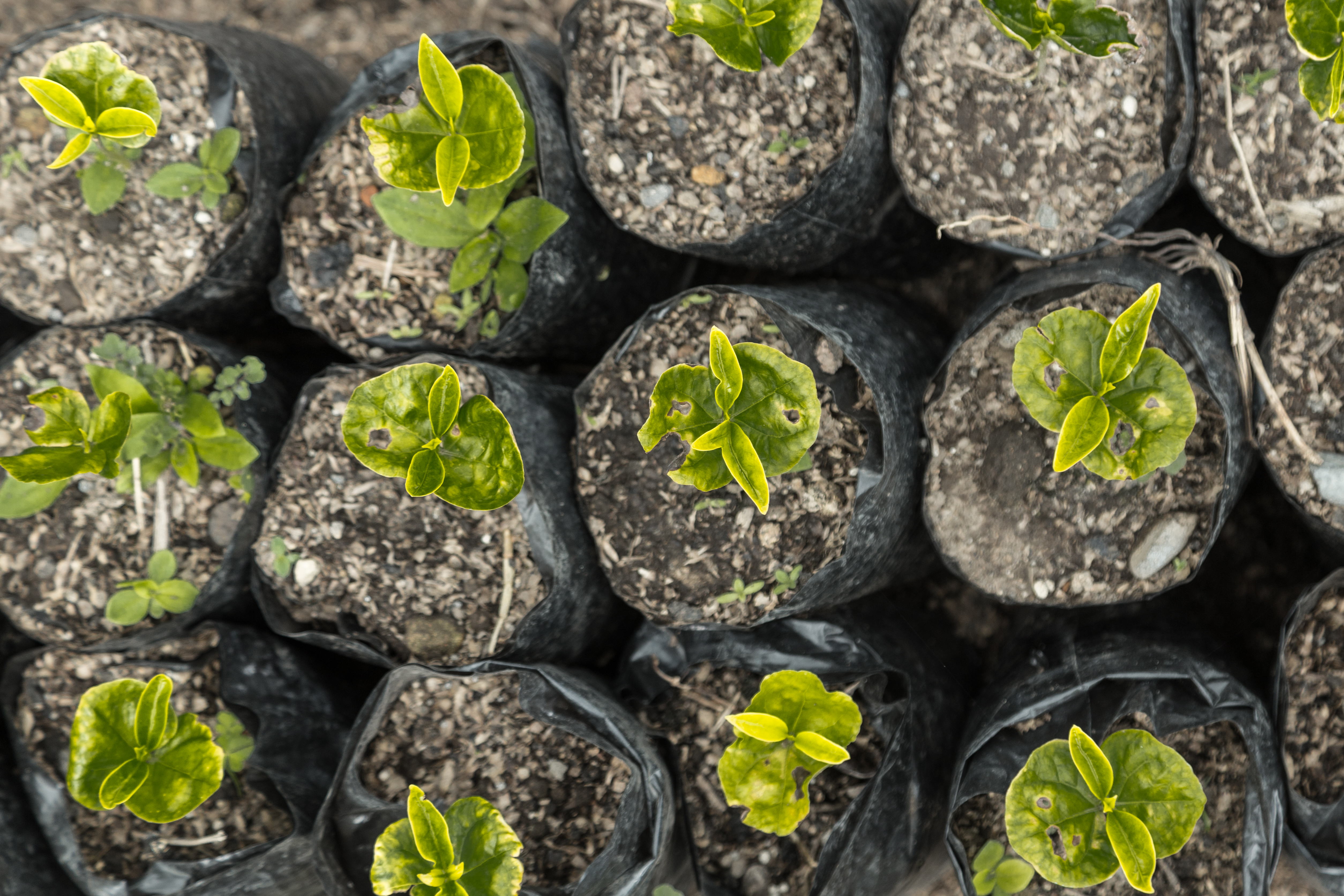 An image of coffee plants